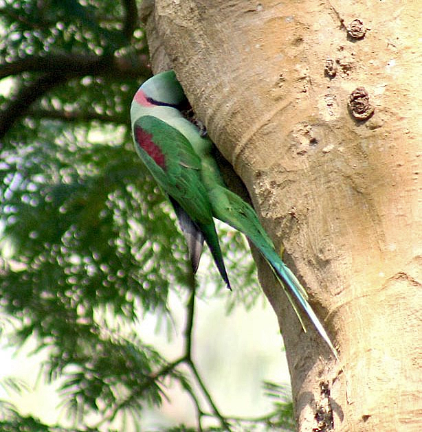 Alaxendrine Parakeet Psittacula eupatria in Kolkata, West Bengal, India.